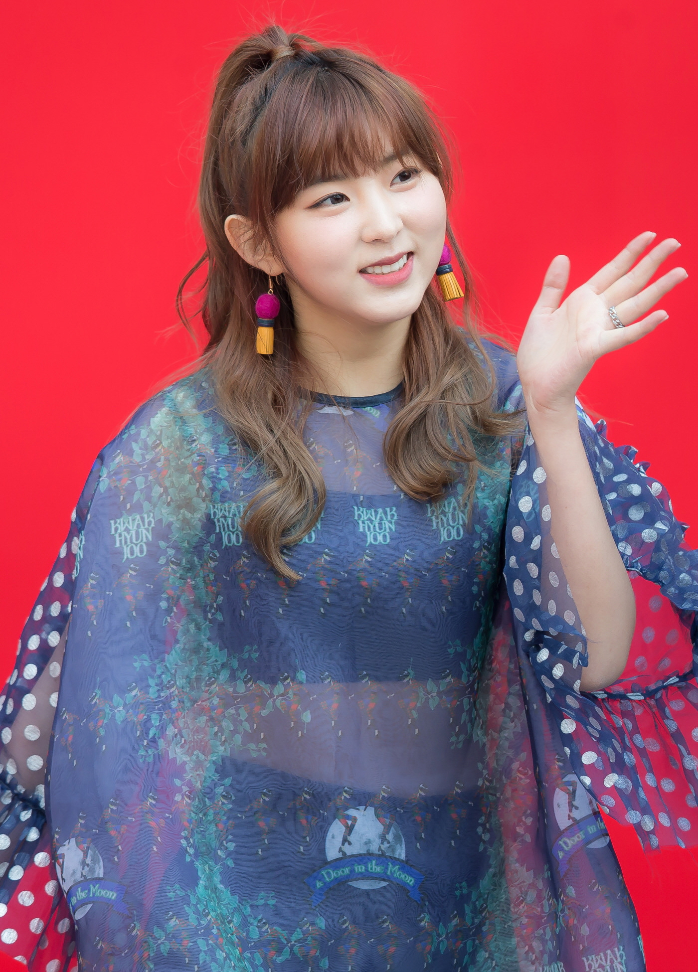 160326 16 F/W 서울패션위크 포토월